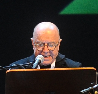 Rehearsal of Voci di Mezzo show at Lucca Comics & Games 2015